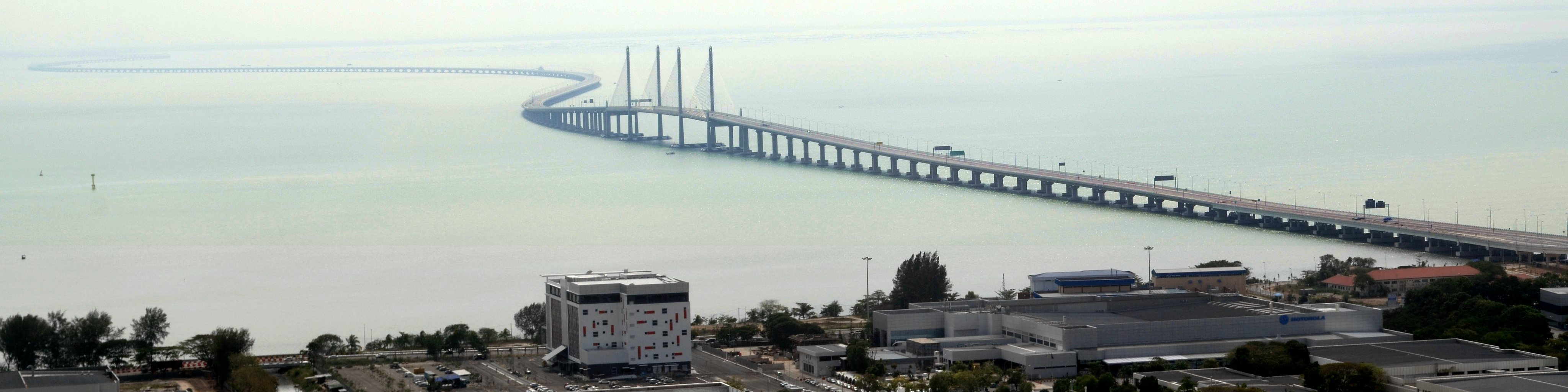 Aerial view of Penang Second Bridge.